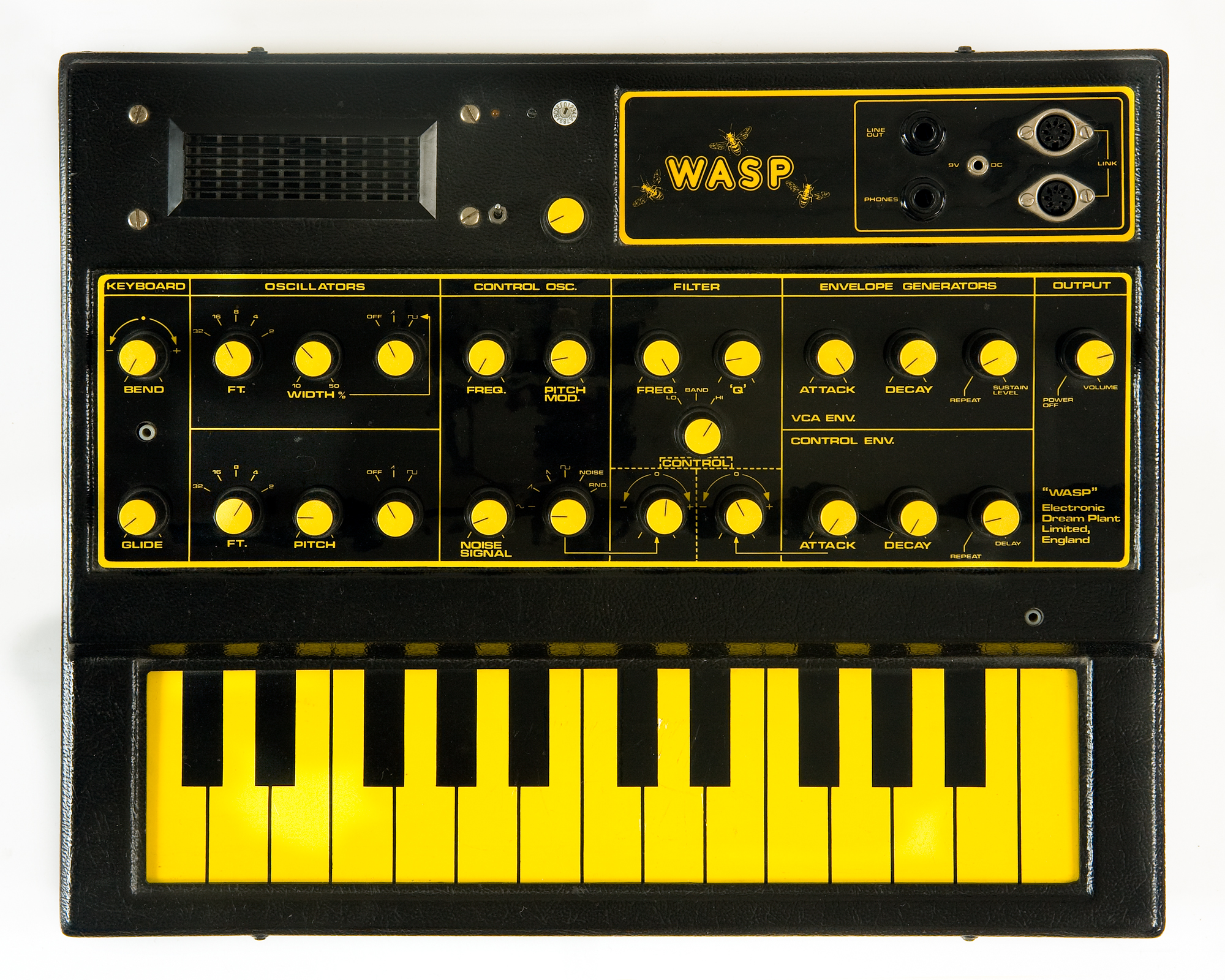 Electronic Dream Plant Wasp Synthesizer